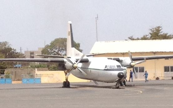 cropped version of this image